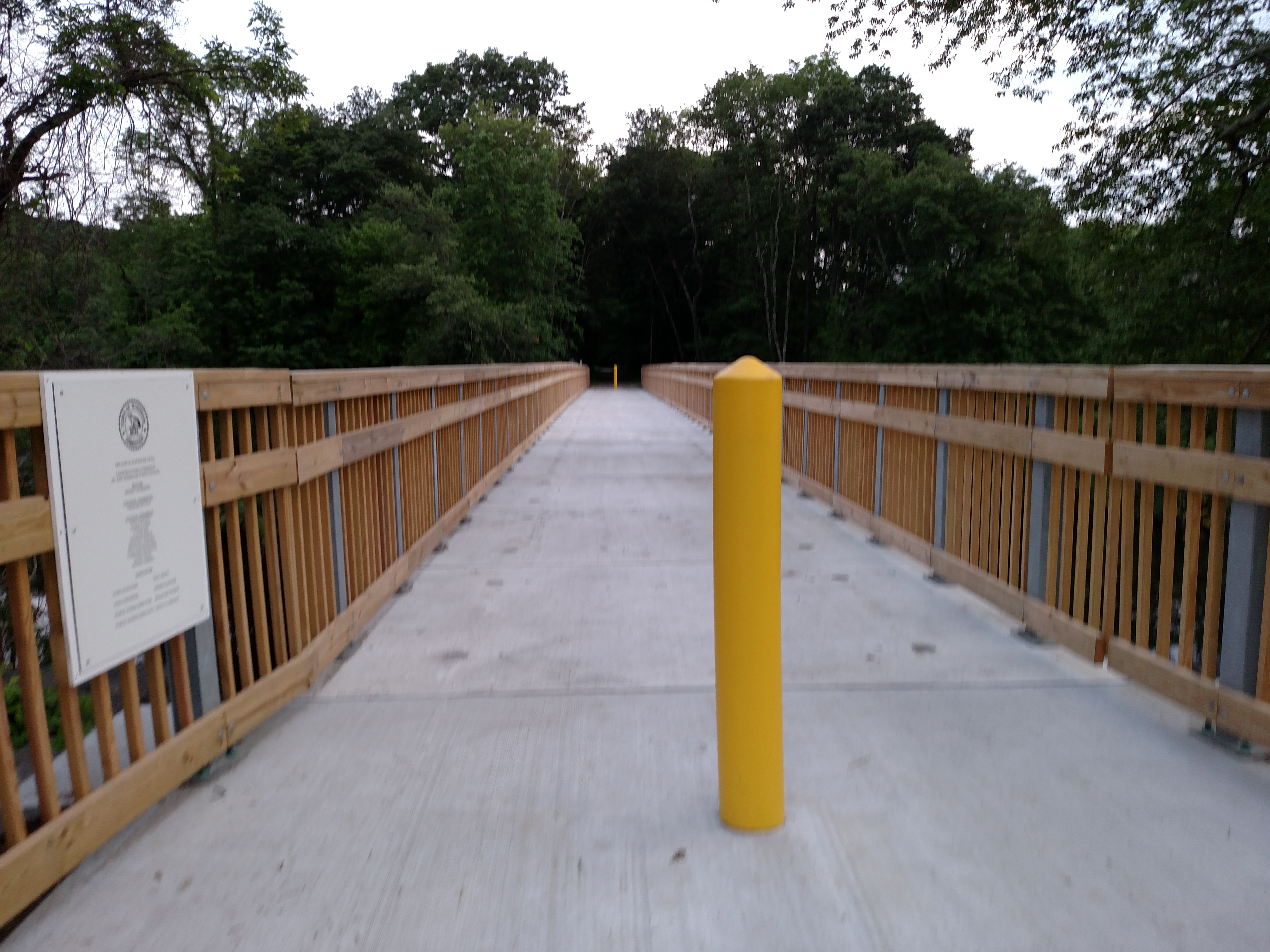 The Air Line Trail South bridge over the Willimantic River in June 2016. The bridge, formerly used by the railroad, was converted to a pedestrian bridge and opened in June 2016.